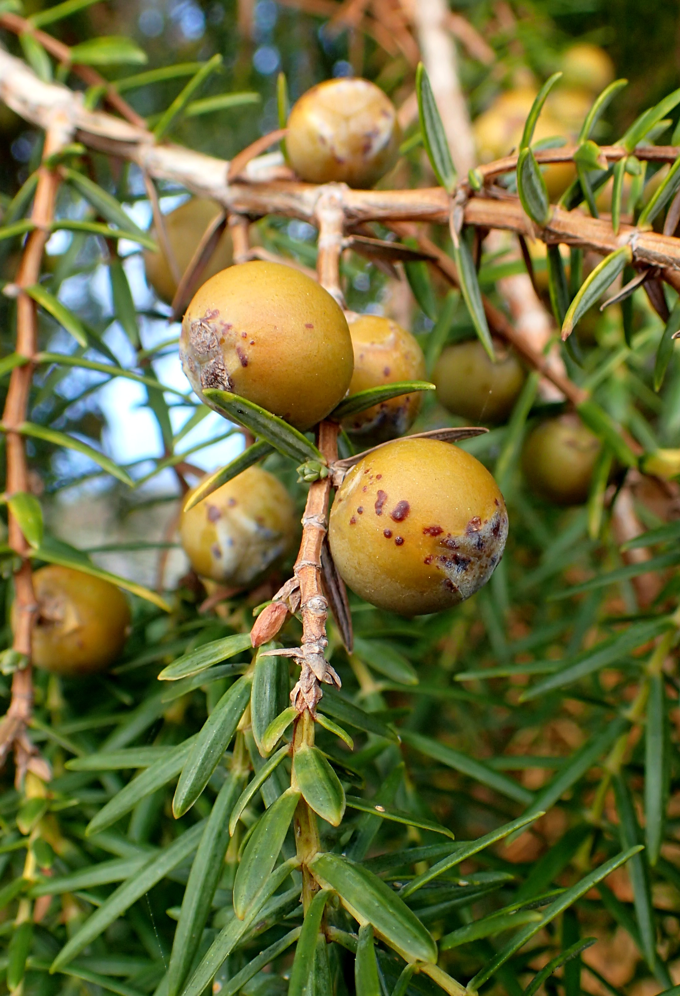 Juniperus cedrus in Tanque, Tenerife, Canary Islands. Roadside at Calle Granero near Restaurante Mirador Lomo Molino